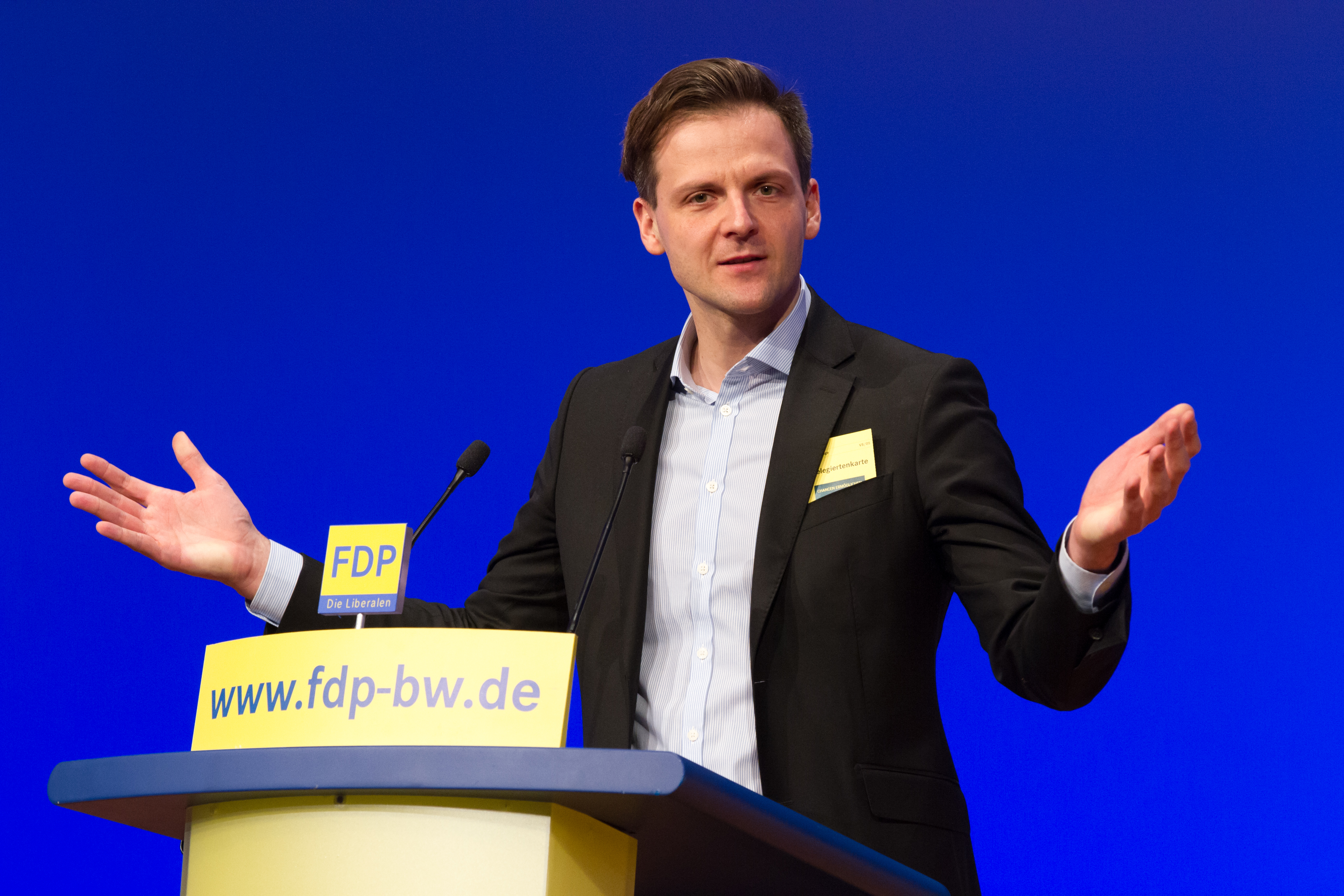 Series: 112th regular party convention of the FDP Baden-Württemberg in Stuttgart on January 5th, 2015 Image: Marcel Klinge